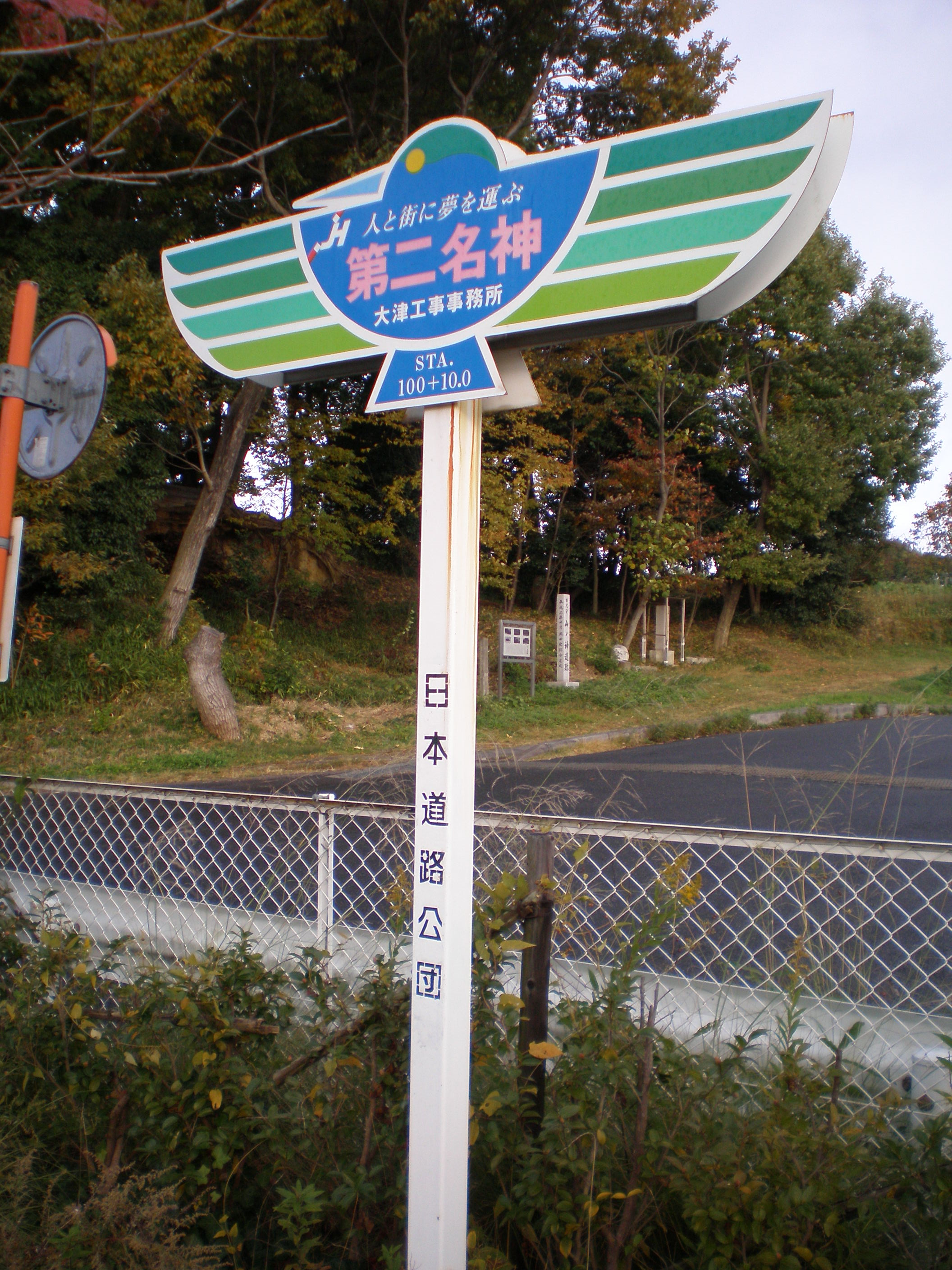 Dai2-Meishin Expressway (At that time) Sign